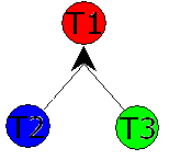 An illustration of part of Gordon Pask's Conversation Theory: the Derivation of a concept from at least two concurrently existing topics or concepts